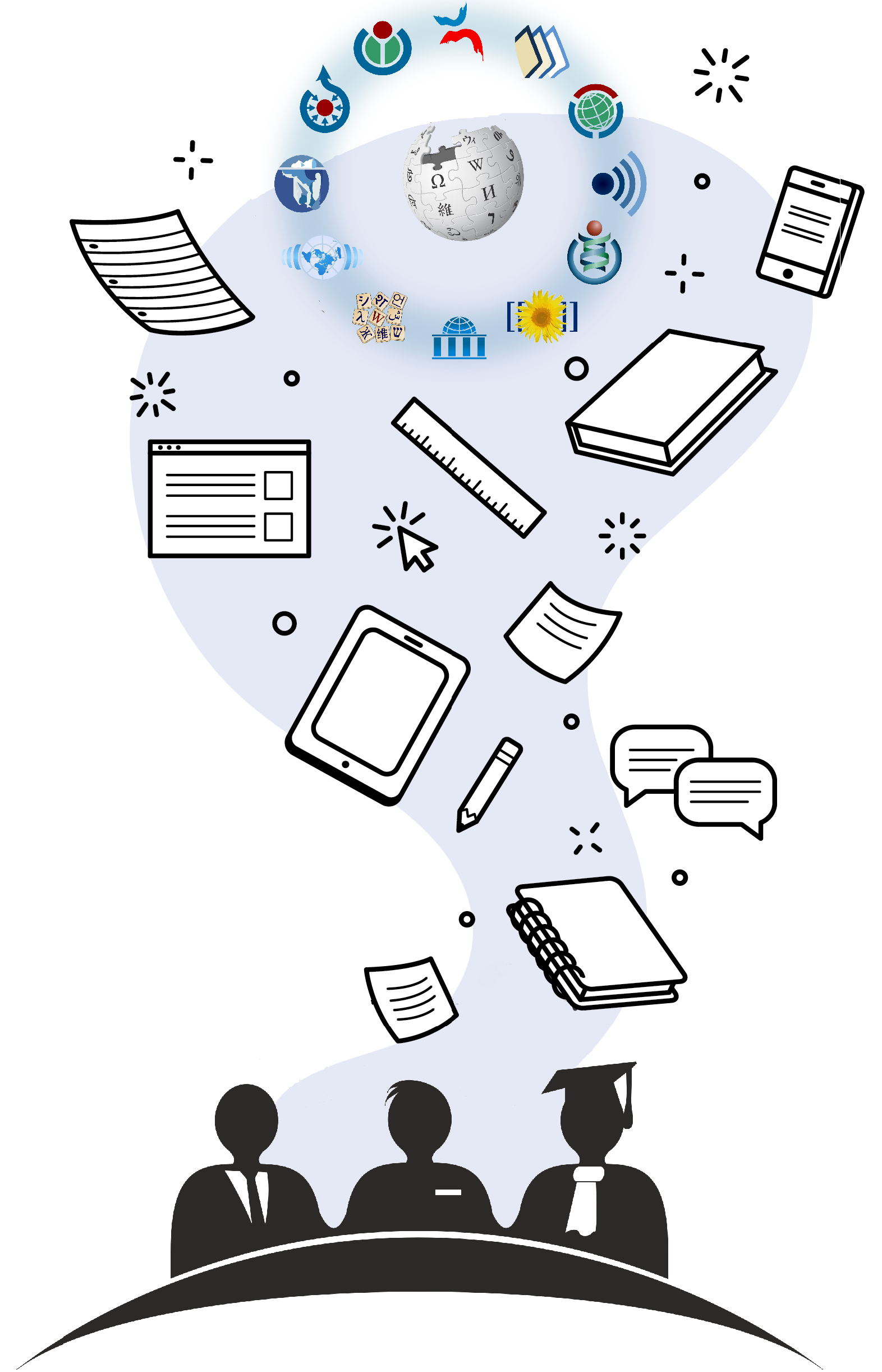 Logo for Inspire Campaign on Knowledge Networks.